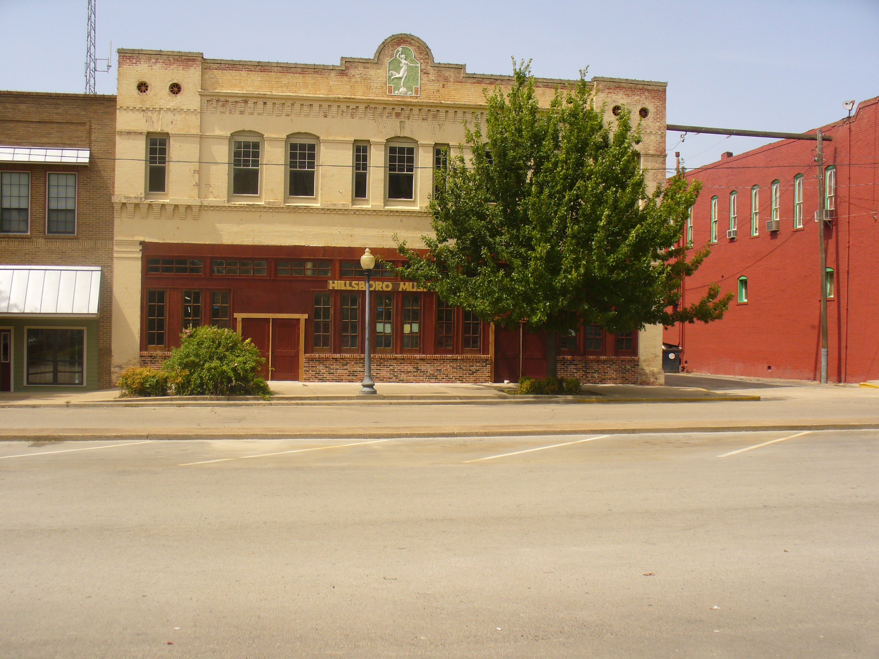 Hillsboro Music was built in 1908 in the town of Hillsboro, Texas, which is a part of Hill County.